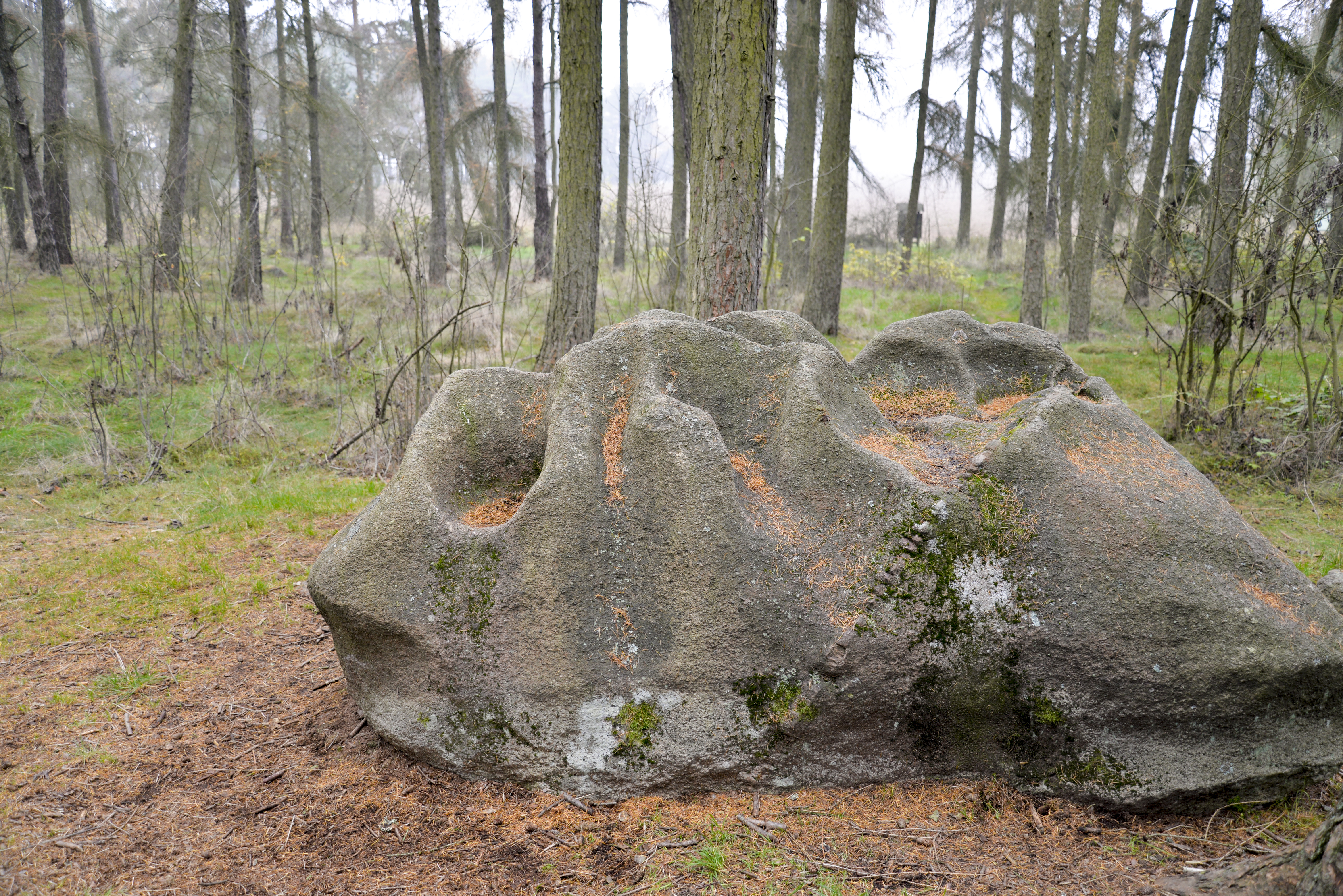 Boží kámen (Gods stone)